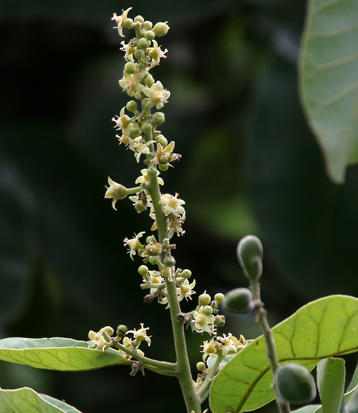 Semecarpus anacardium (Syn. A. orientale)- Marking Nut, dhobi nut tree, Indian marking nut tree, Malacca bean, marany nut, marsh nut, oriental cashew nut, varnish tree • Hindi: भिलावां or भिलावन bhilawan, बिल्लार billar • Marathi: भल्लातक bhallataka, भिल्लावा bhillava, बिब्बा bibba • Tamil: சேங்கொட்டை cen-kottai, சோம்பலம் compalam, காலகம் kalakam, காவகா kavaka, கிட்டாக்கனிக்கொட்டை kitta-k-kani-k-kottai • Malayalam: അലക്കുചേര് alakuceer, ചേന്‍ക്കുരു ceenkkuru, തേങ്കൊട്ട theenkotta • Telugu: భల్లాతము bhallatamu, జీడిమామిడిచెట్టు jidimamidichettu • Kannada: ಗೇರ geru, ಗೇರಣ್ಣಿನ ಮರ gerannina mara • Bengali: ভল্লাত bhallata, ভল্লাতক bhallataka • Oriya: bhollataki, bonebhalia • Konkani: अंबेरी amberi, बिब्बा bibba • Urdu: baladur, بهلاون bhilavan, بلار billar • Assamese: ভলা bhala • Gujarati: ભિલામો bhilamo, ભિલામું bhilamu • Sanskrit: अह्वला ahvala, अर्शस्तः arshastah, अरुध्कः arudhkh, भल्लातकः bhallatakah, वह्निः vahnih, विषास्या vishasya • Nepali: भलायो bhalaayo- in Narsapur, Medak district, Andhra Pradesh, India.